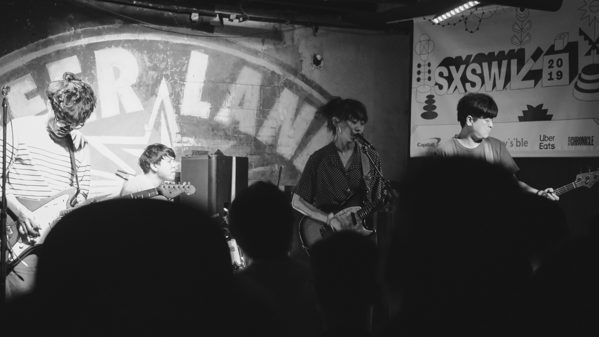 SXSW 2019 - Say Sue Me